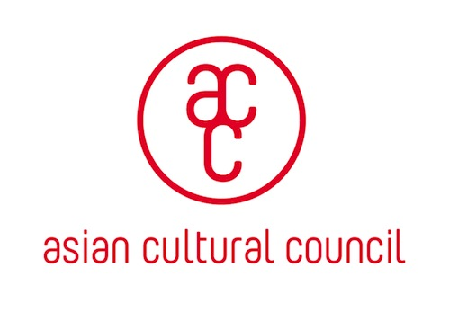 Asian Cultural Council Logo